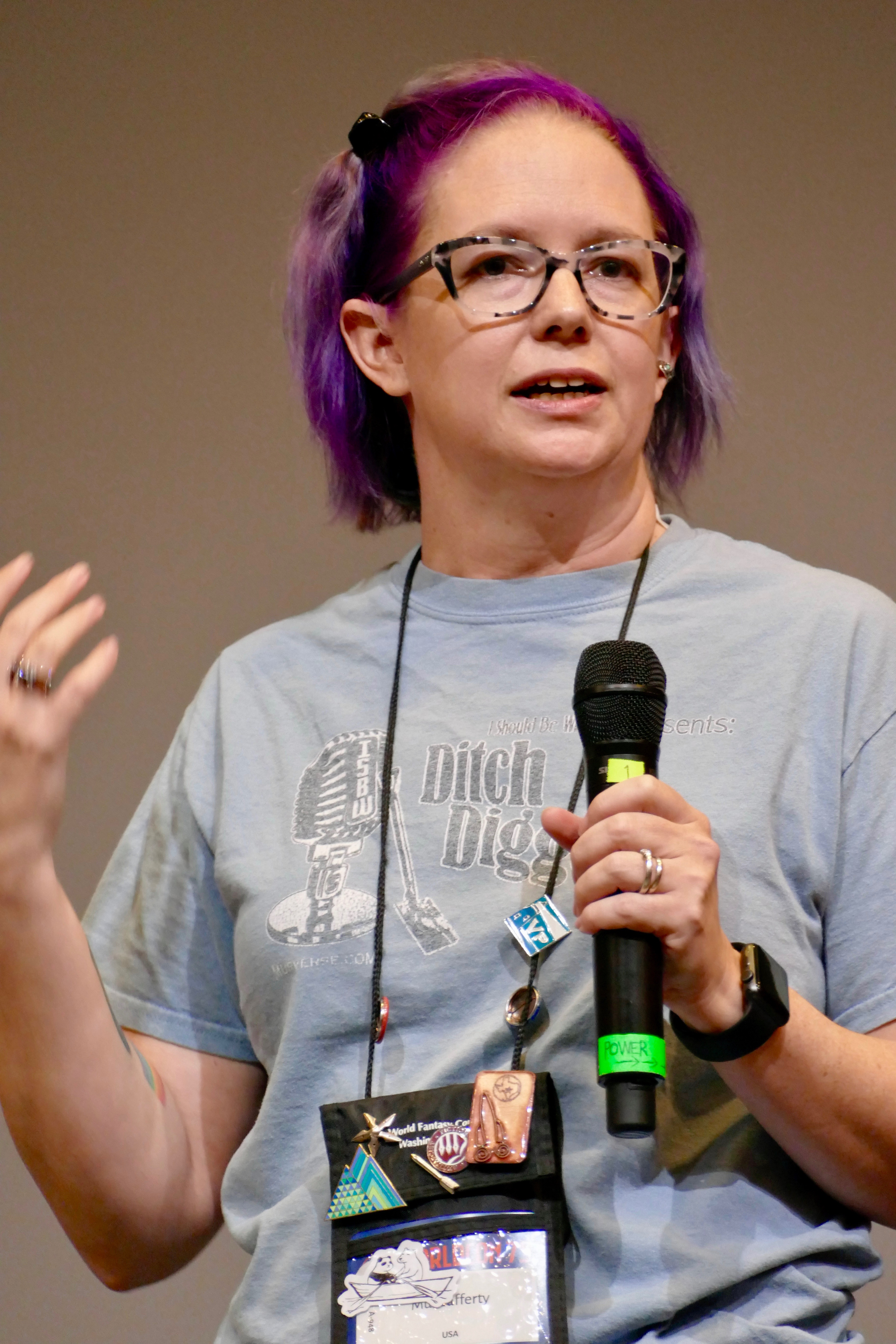 American author and podcaster Mur Lafferty performing a live episode of the Ditch Diggers podcast at the 75th Worldcon in Helsinki, Finland, in August 2017.